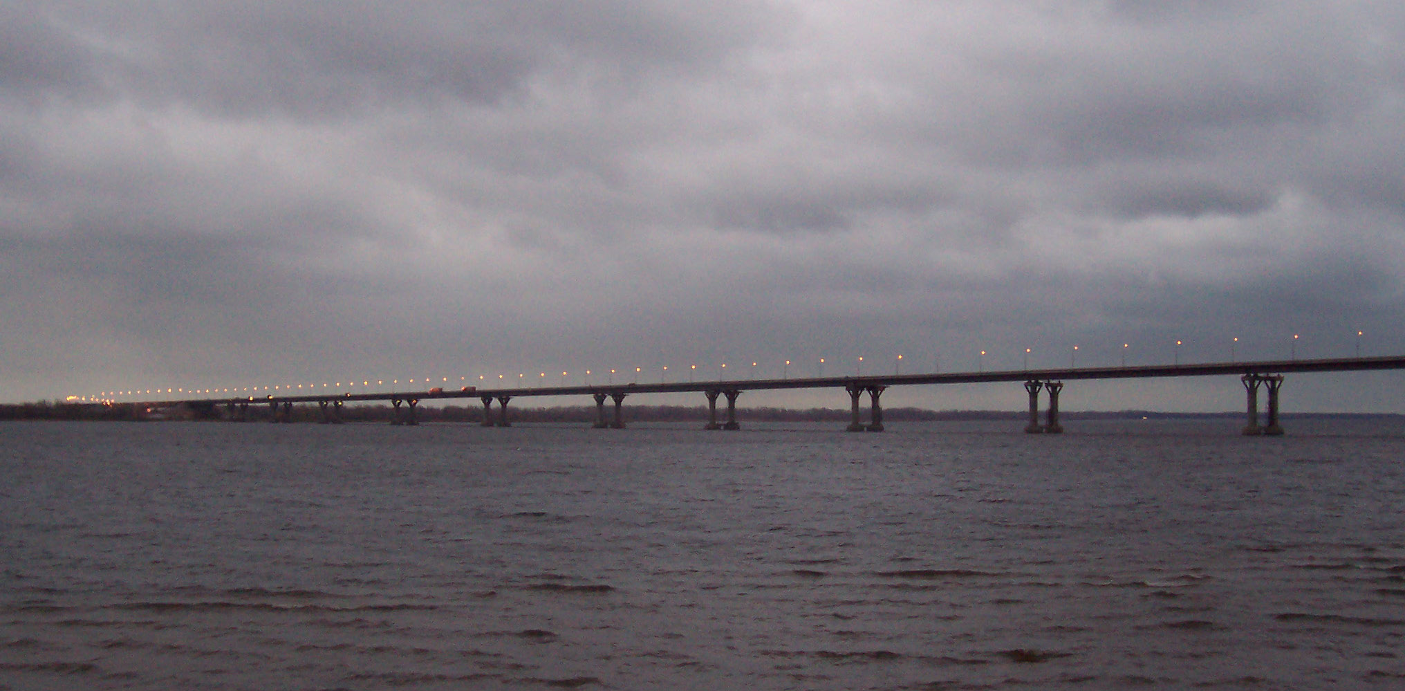 New Volga bridge north of Saratov